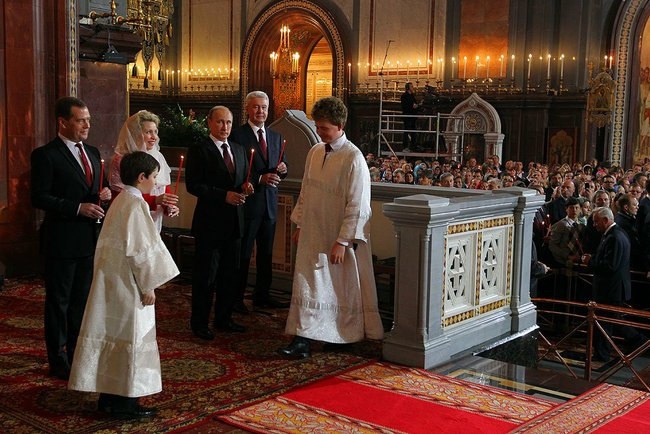 At an Easter service in the Cathedral of Christ the Saviour in Moscow, Russia, 2013-05-05. Vladimir Putin with Prime Minister Dmitry Medvedev, his spouse Svetlana Medvedeva and Moscow Mayor Sergei Sobyanin.